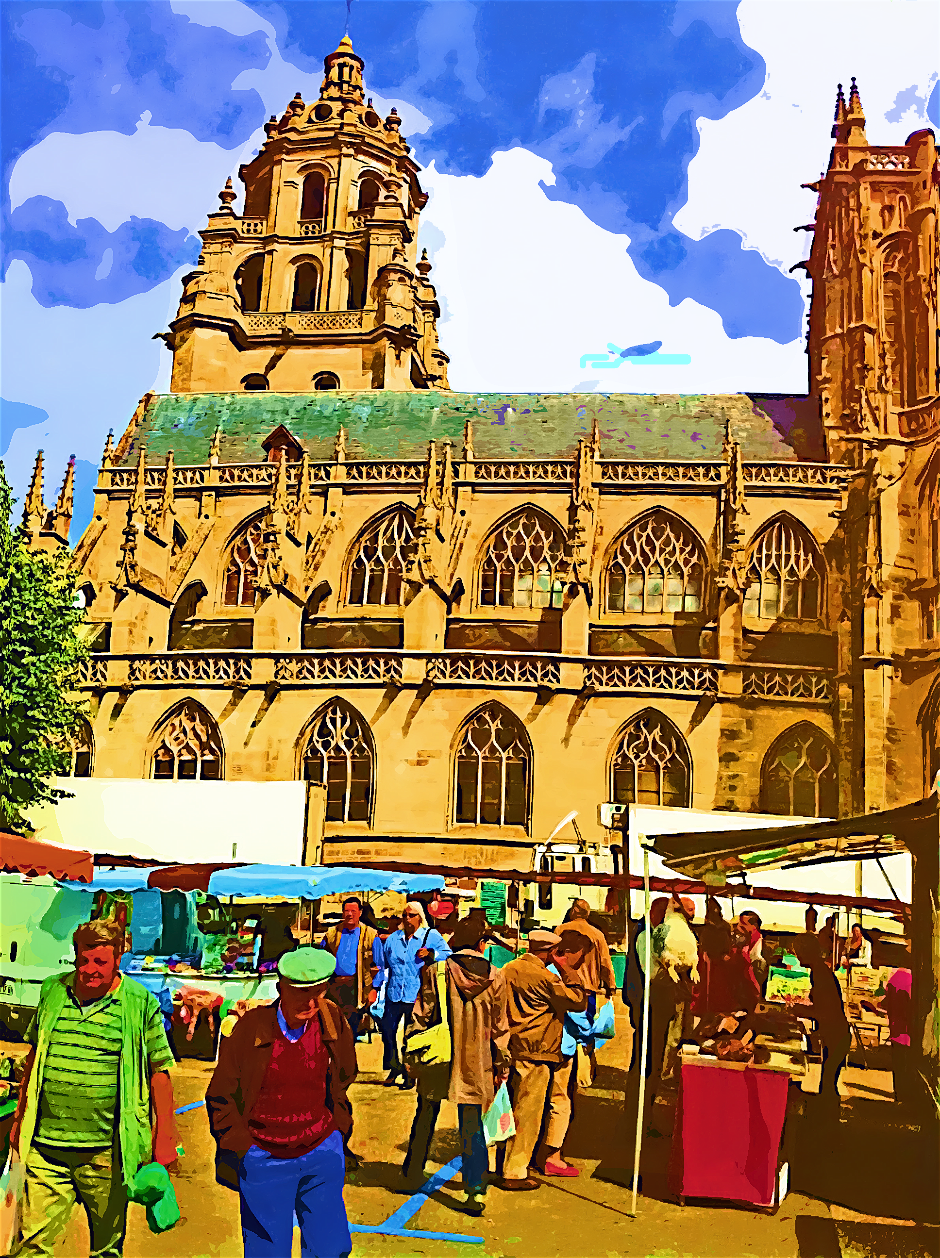 crowded market in the churches market square